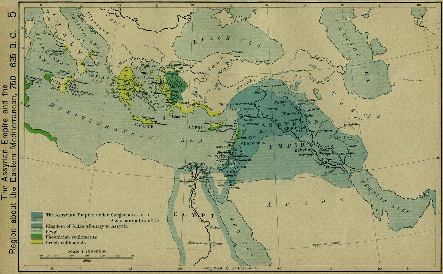 Map of the Assyrian Empire